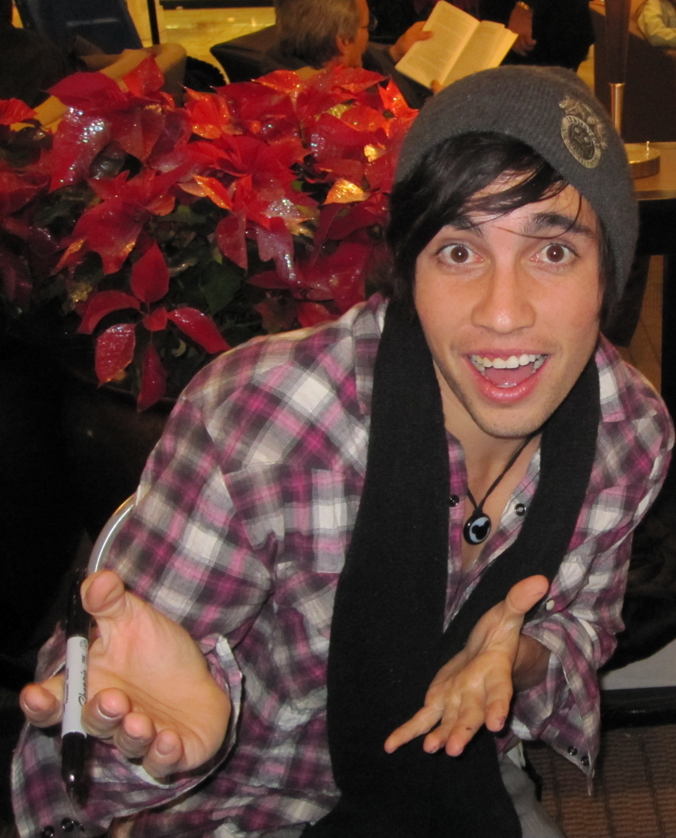 Chester See; born and raised in Fairfield California; Attended UCLA and received a Bachelors Degree in Theater Arts with an emphasis in Acting; 2006 became the face of Disney Channels “Disney 365″